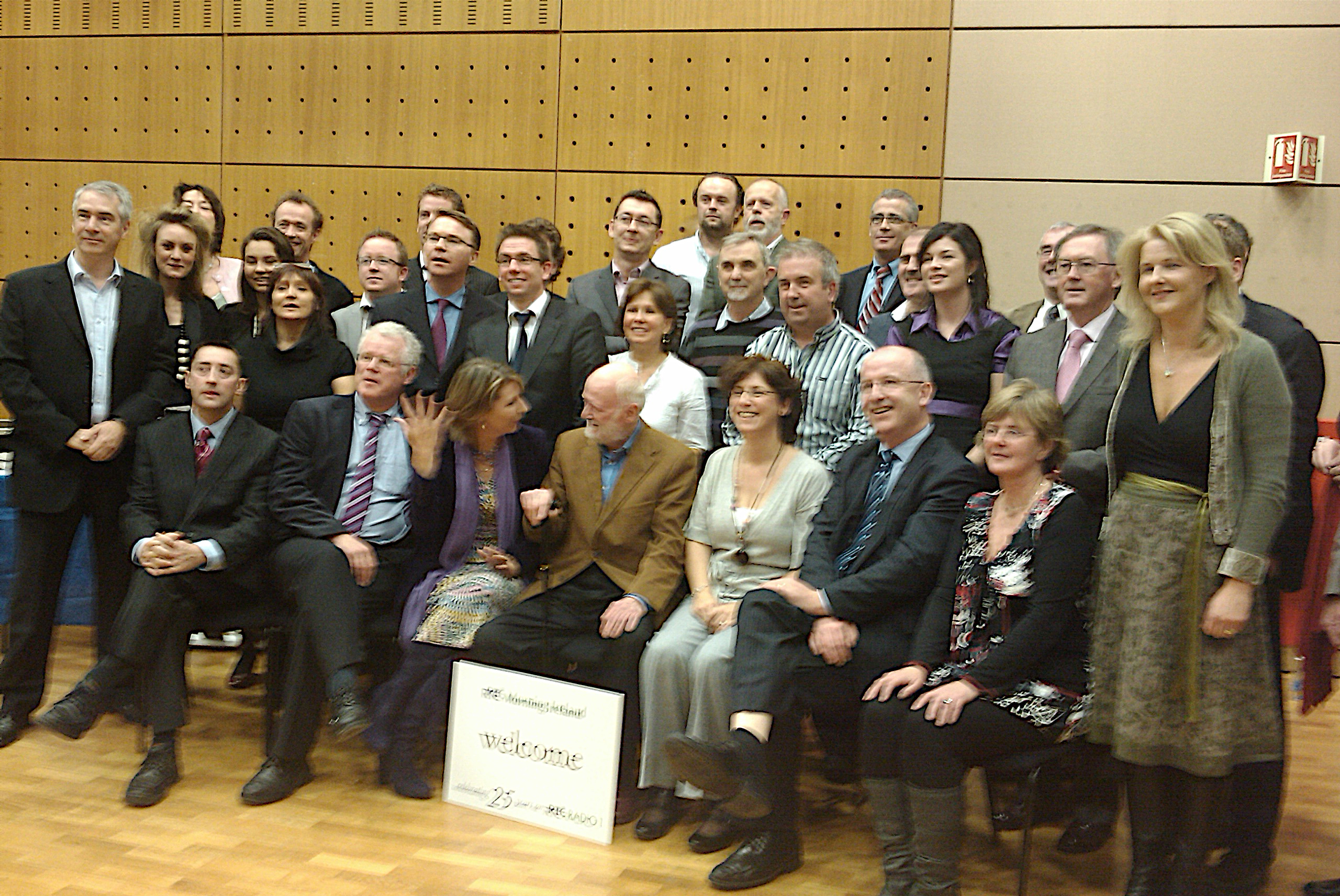 At 25th Anniversary celebrations, the whole Morning Ireland team.